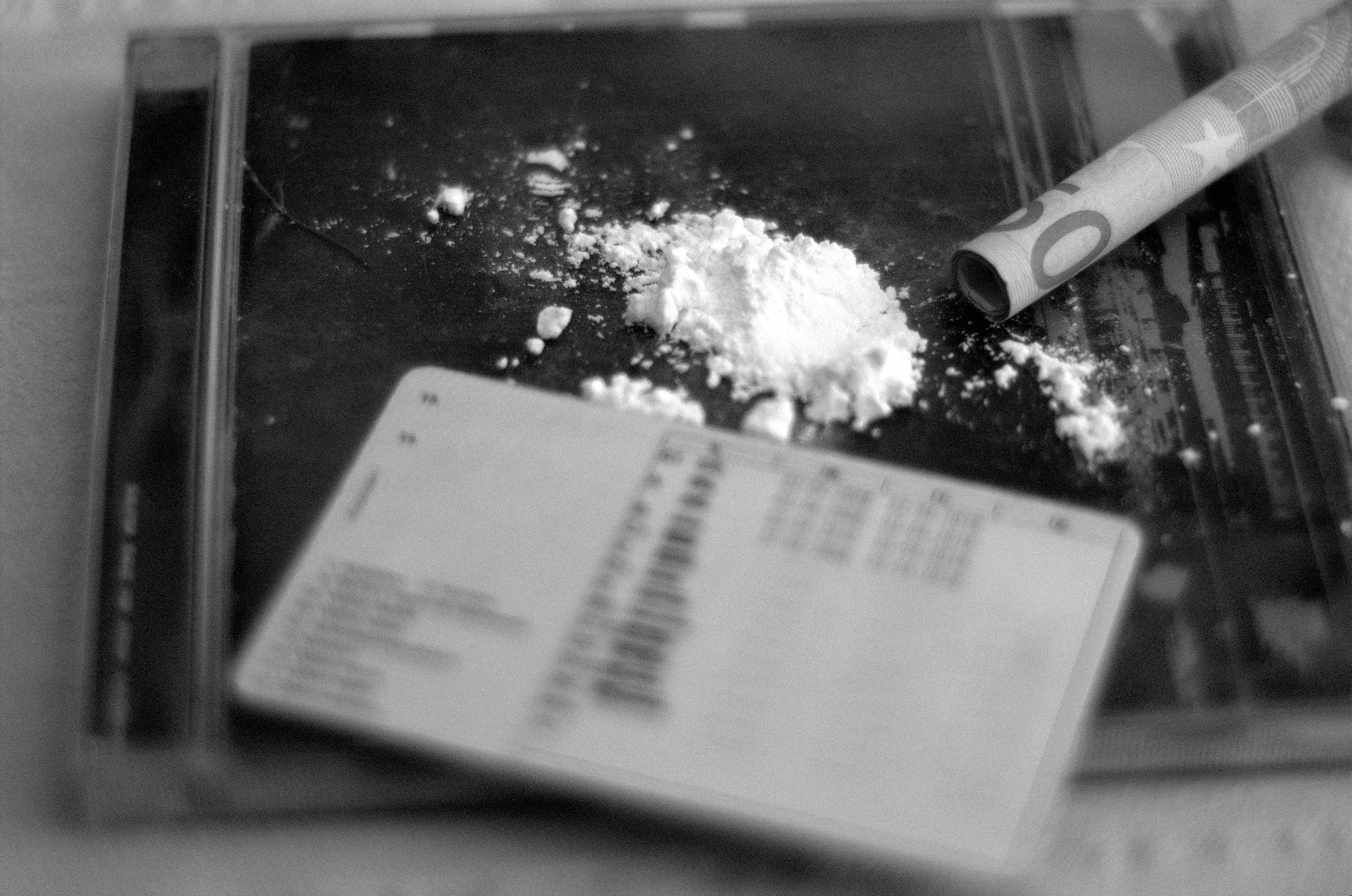 Cocaine